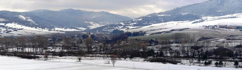 Village Brezovica (district Sabinov, Slovakia), at the back with eastern part of Levočské vrchy Mts.